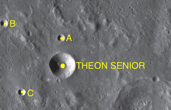 Parts of the charts LAC-60, LAC-78 used for the presentation